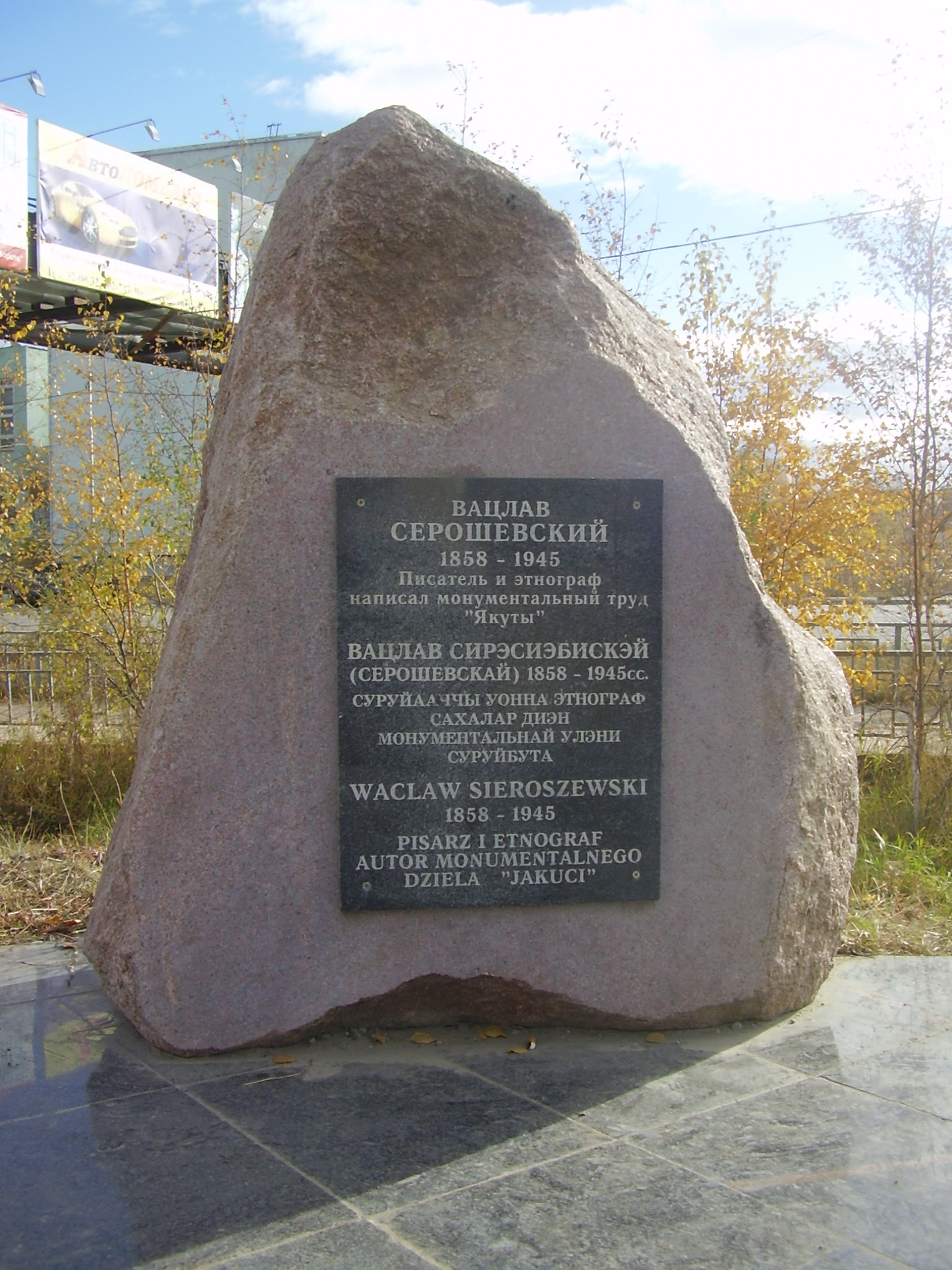 Sieroszewski memorial stone, one of four in the monument to dedicated Polish exiles in Yakutia